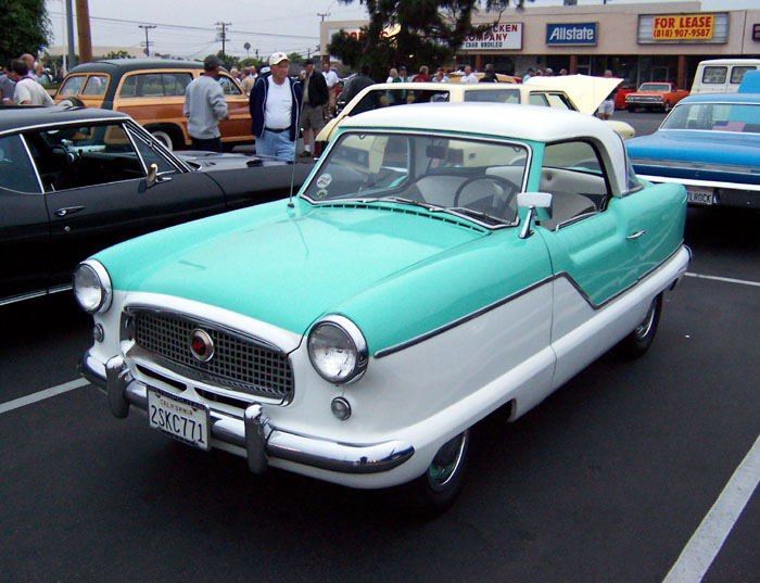 Nash Metropolitan. Photographed by Morven at the weekly Donut Derelicts car show in Huntington Beach, California on Saturday, June 24, 2004.